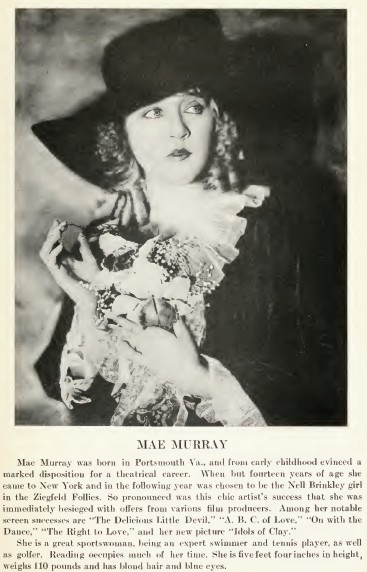 Actress Mae Murray from Who's Who on the Screen, published by Ross Publishing Co., 1920 [1]